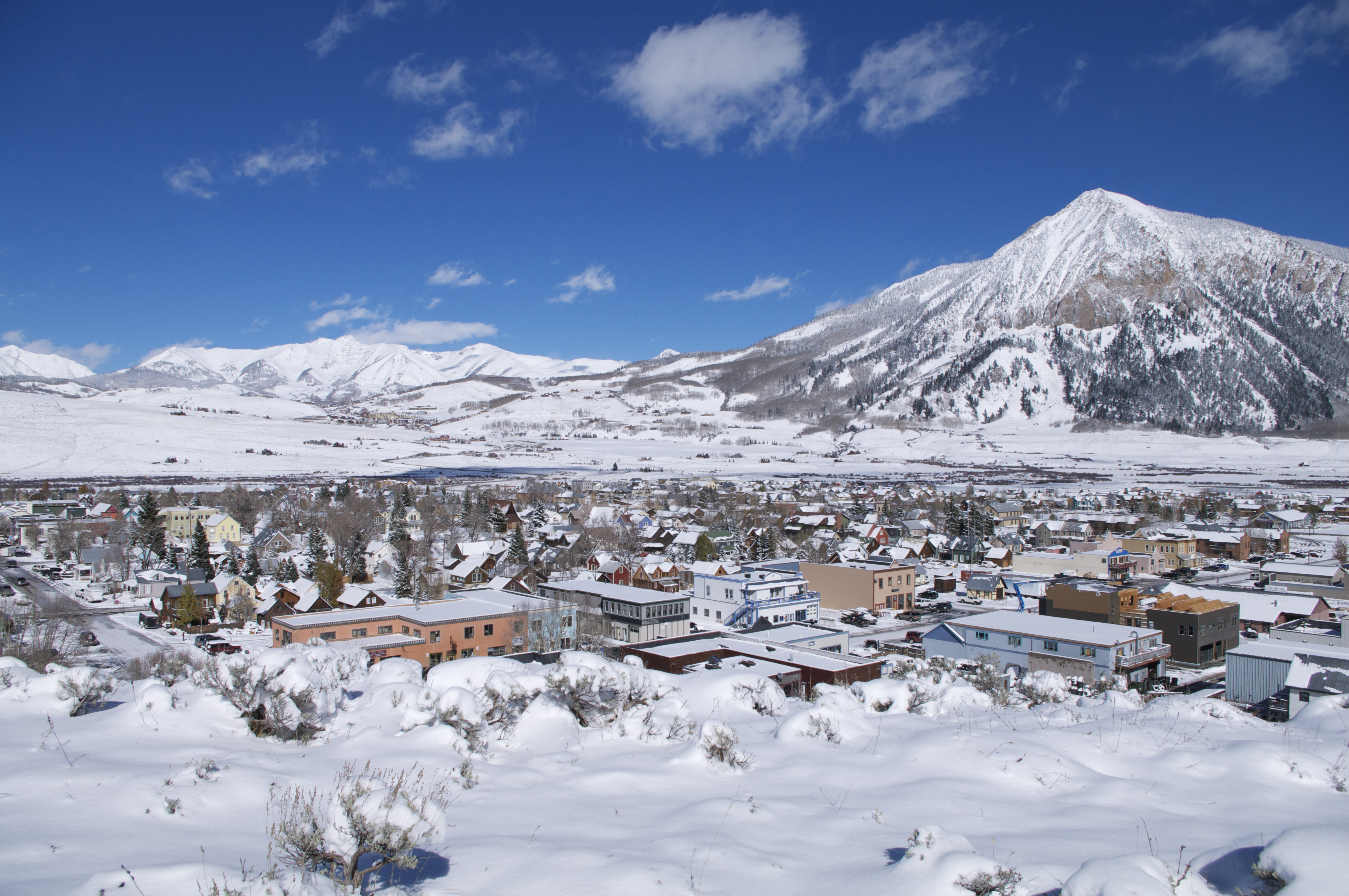 The town of Crested Butte with Mt. Crested Butte behind it.